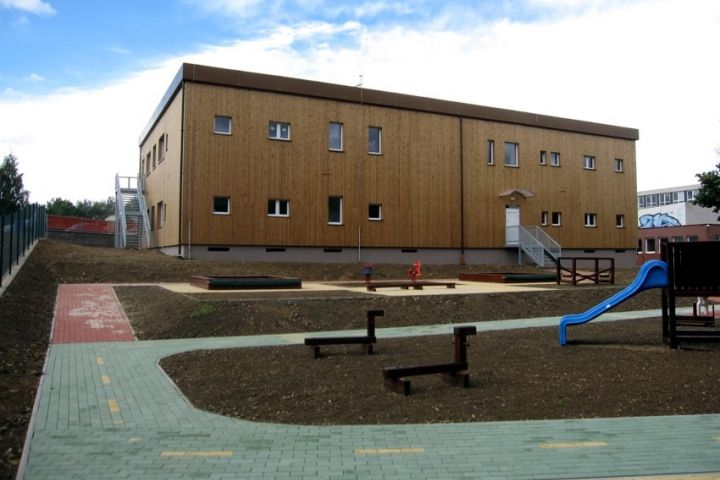 modularni_skolka